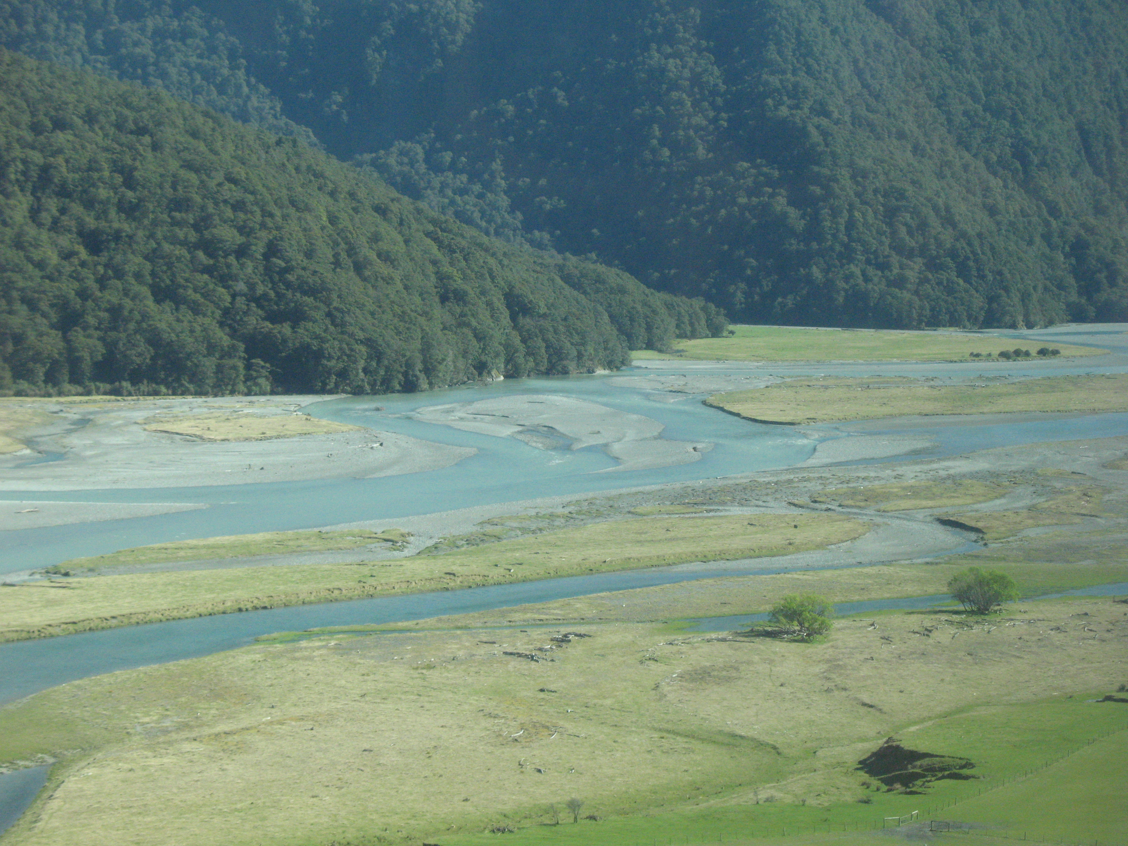 The Makarora River, which rises in the Mount Aspiring National Park, flows south past West Makarora township into the Northern End of Lake Wanaka, South Island, New Zealand.